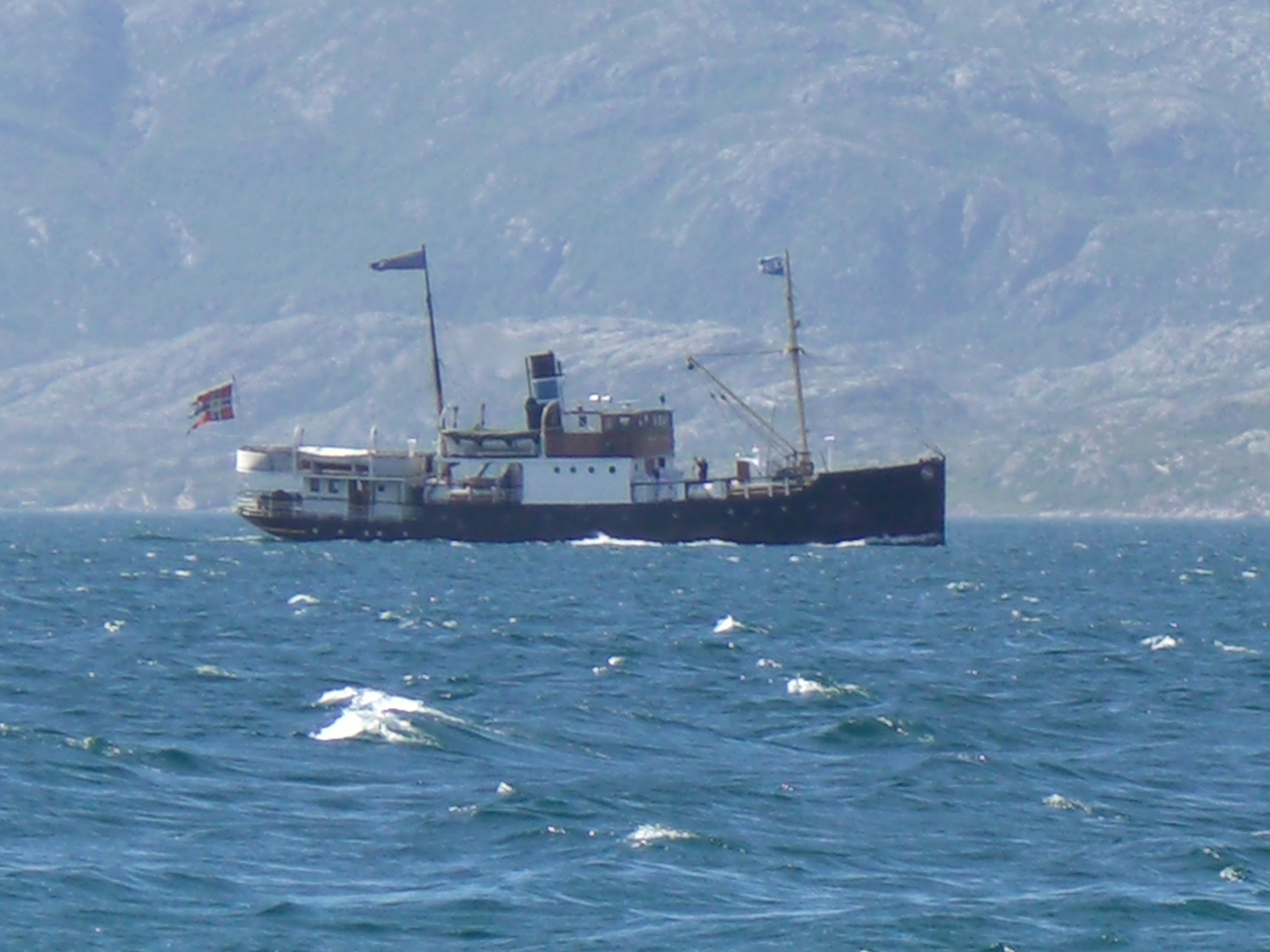 D/S «Børøysund»